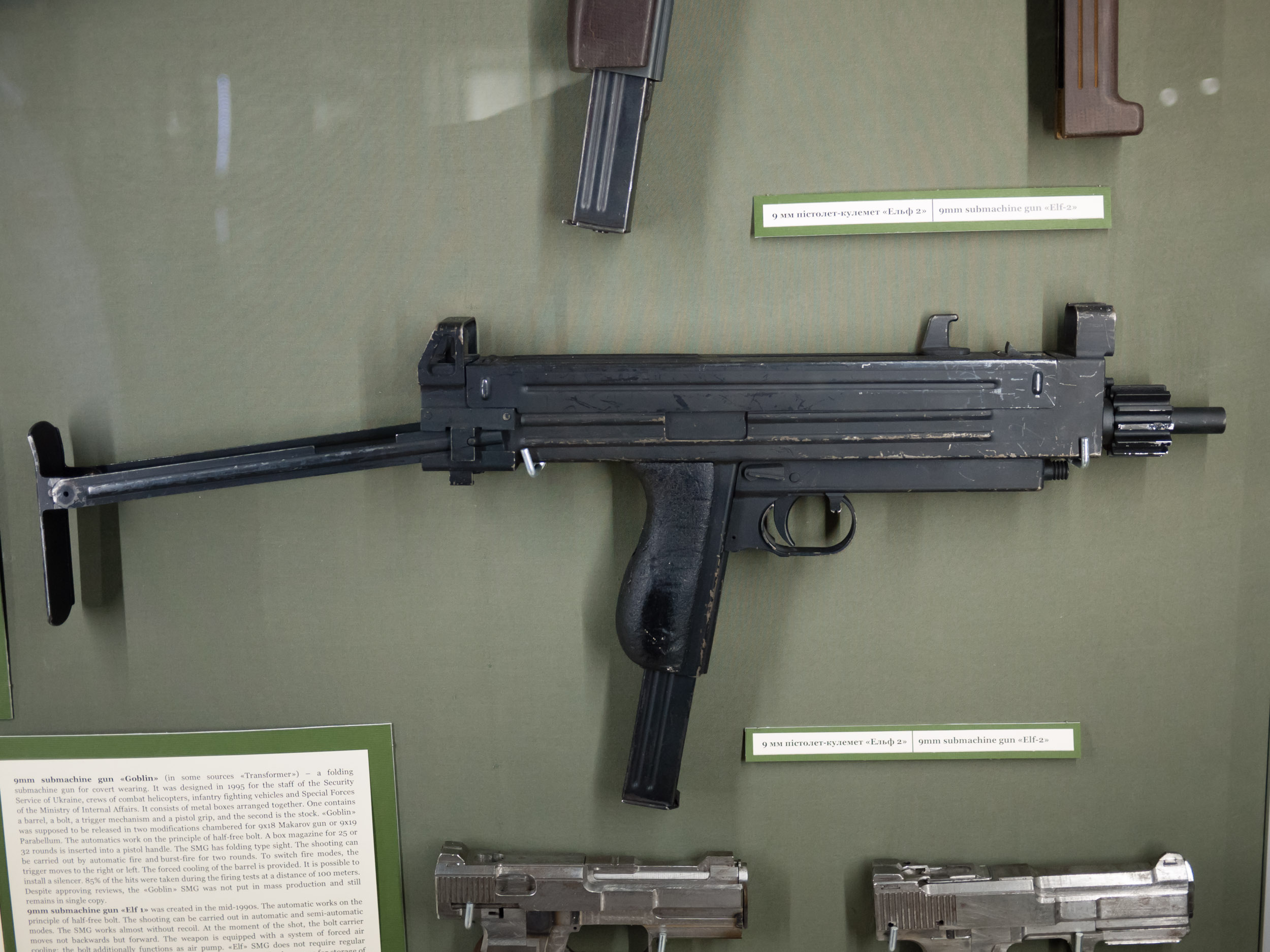 'Elf-2' 9mm submachine gun by Ihor Oleksiyenko, National Military-Historical Museum of Ukraine